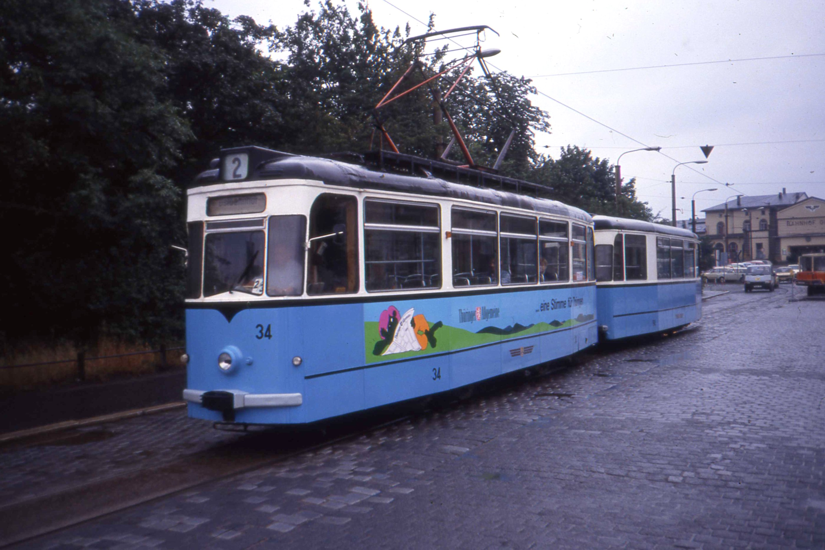 Linie 2 connected the Hauptbahnhof and the Ostbahnhof, with a turning loop at each end. More about the Gotha made trams of Gotha here Triebwagen nr 34 was a 1968 Gotha - Tatra T2D which was scrapped the following year in 1992. Possibly with trailer nr 94, a 1960 Gotha B57 The motor car carries advertising for the Thüringer Allgemeine newspaper, one of several papers which were competing vigorously in the town in the early 90s, using trams to advertise themselves. The TA zeitung is based in Erfurt, but has only carried this name since 1990, prior to which it was the DDR newspaper Das Volk which carried the line of the SED. In 2009, the chief editor since the beginning in 1990 was given the push in the way things were done in the old days. Plus ca change.